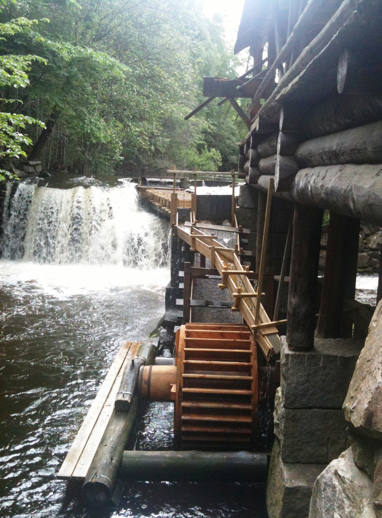 Ljan oppgangssag, an old sawmill situated in Ljan (Southern Oslo), but originally from Trøndelag (Central Norway). 19th Century.